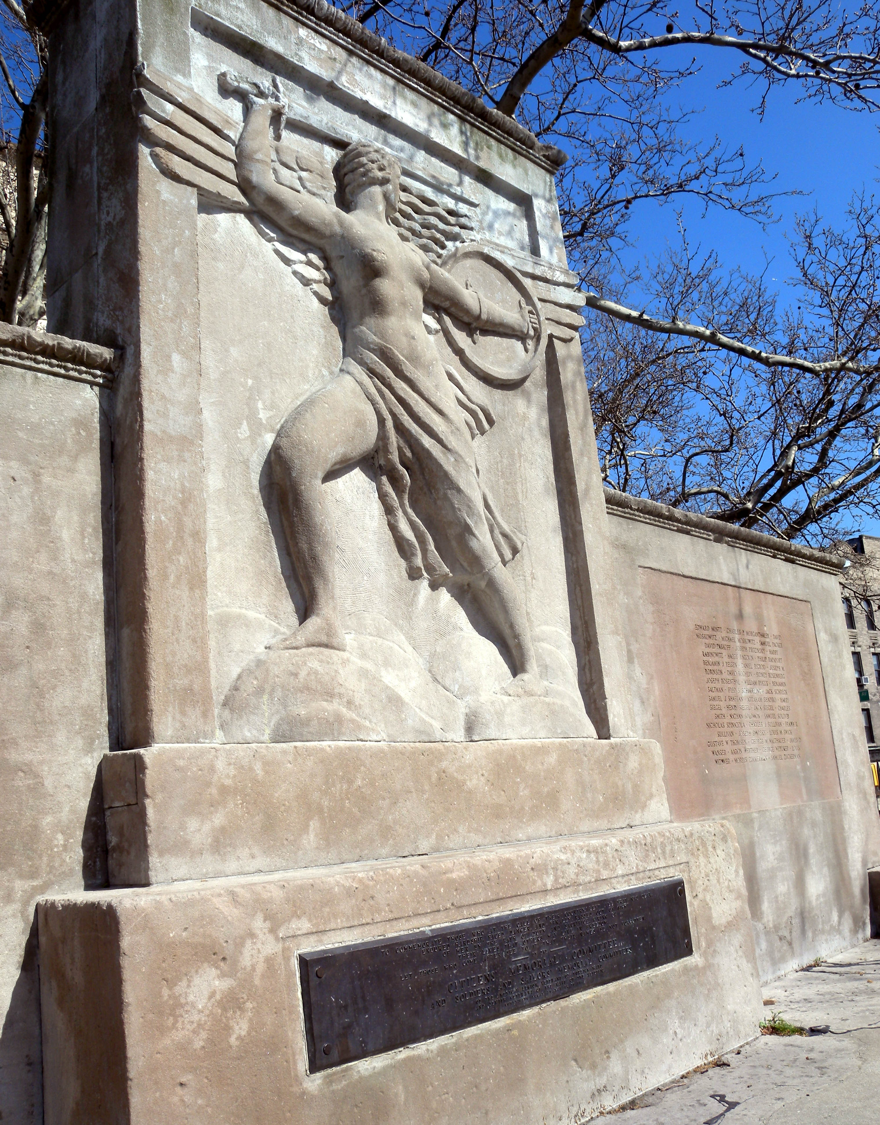 Zion Triangle World War I Memorial, New Lots, Brooklyn, New York City. Looking southeast on a sunny afternoon.